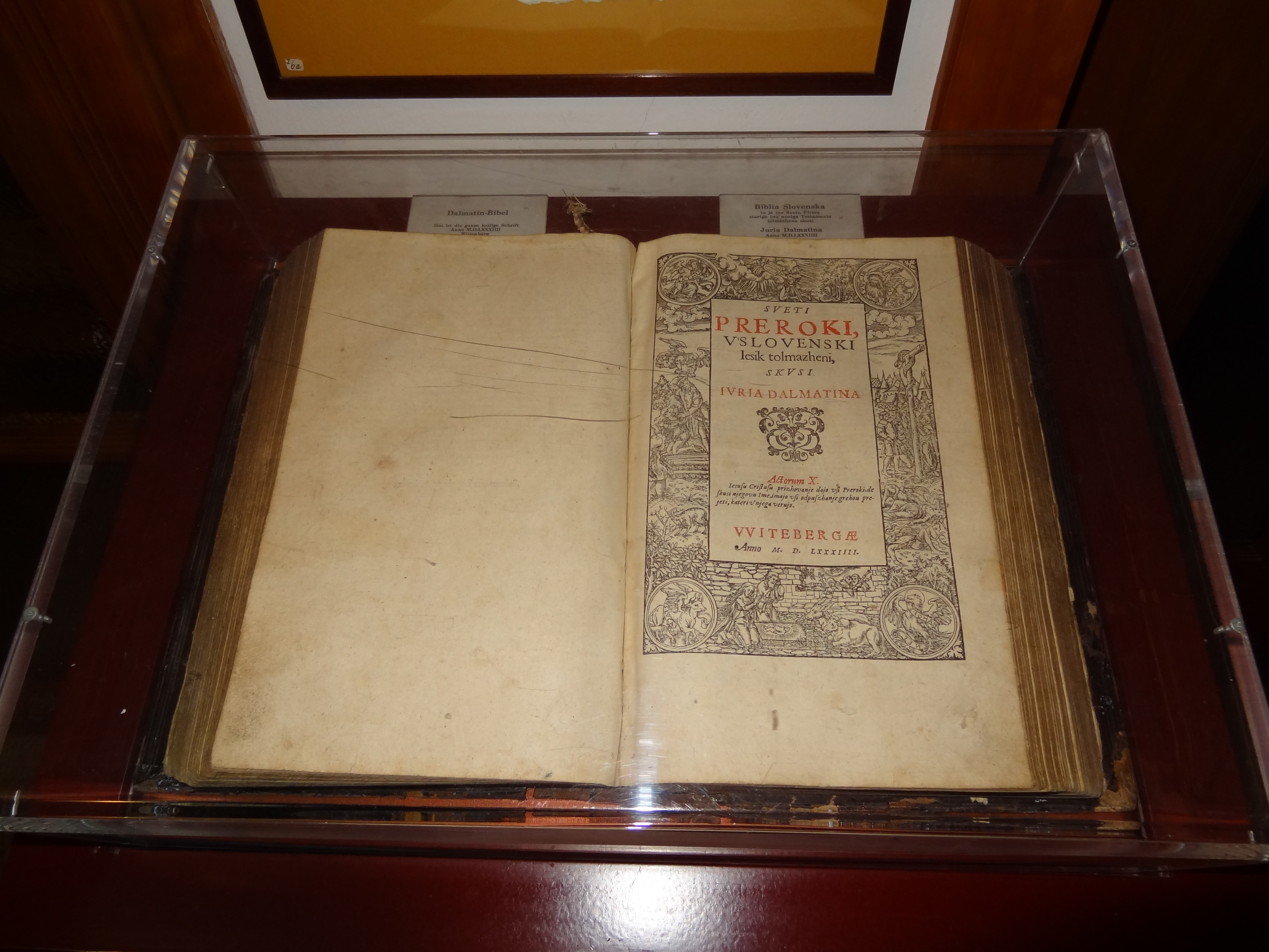 The Dalmatin Bible in Tainach/Tinje in Carinthia, Austria.